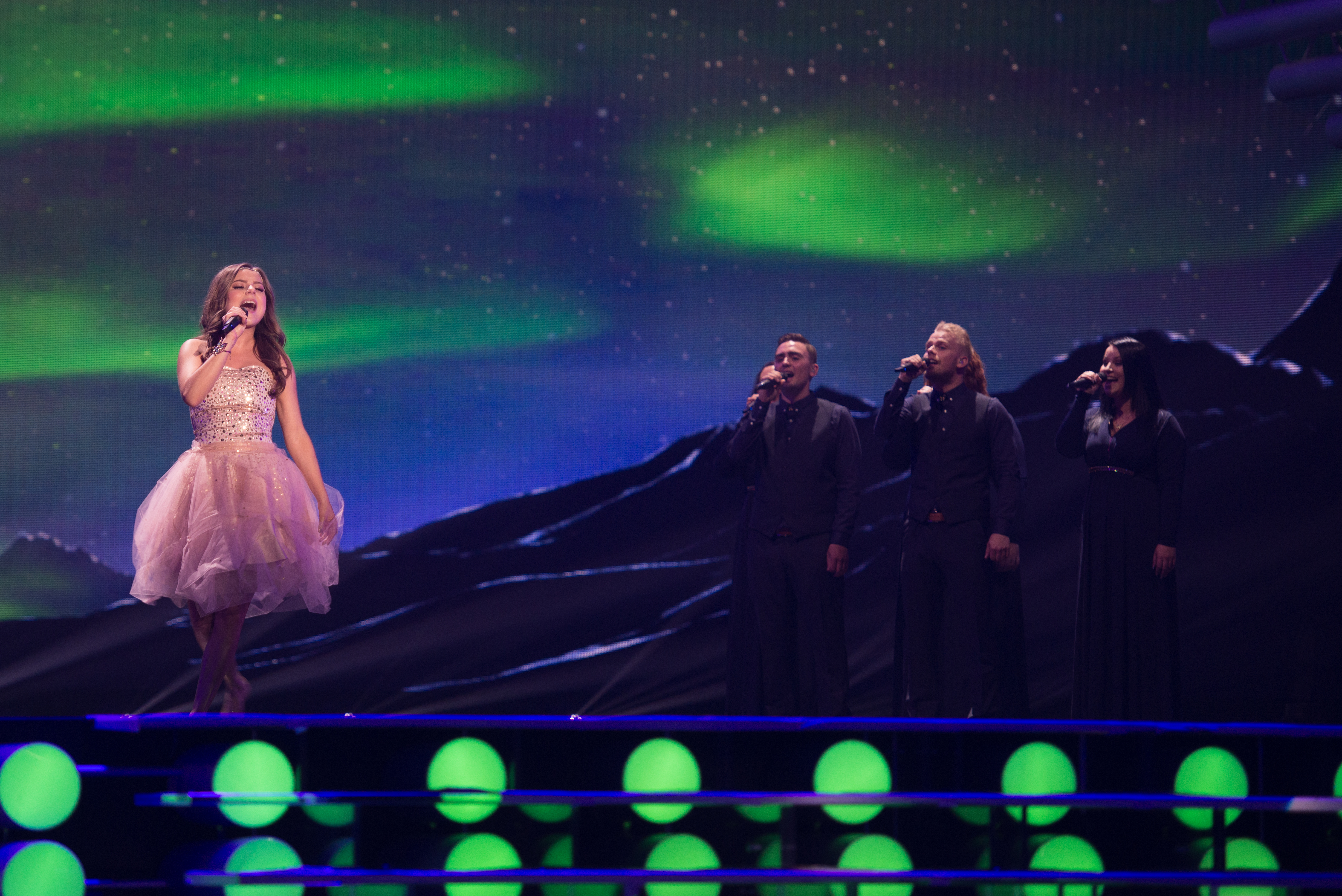 Eurovision Song Contest Vienna 2015: Maria Olafs